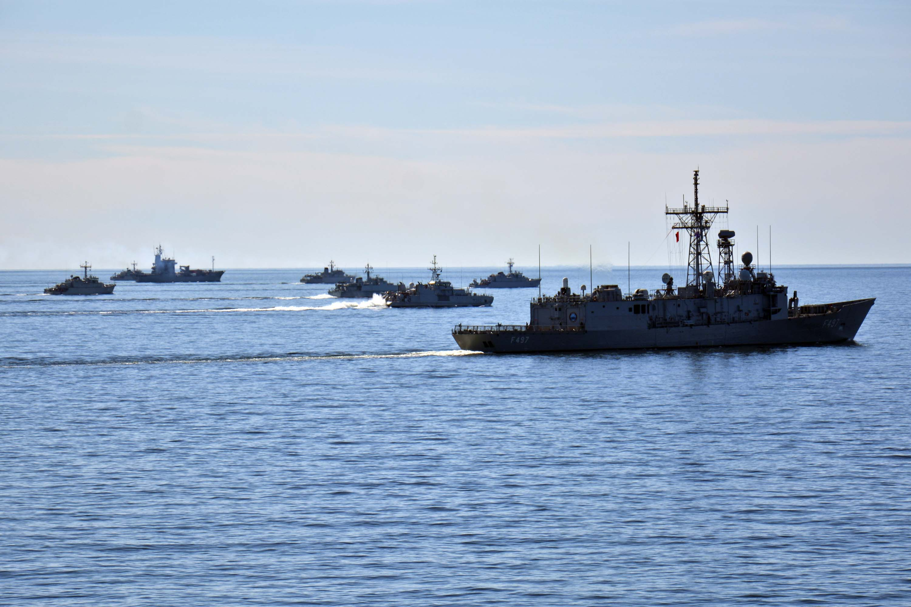 Standing NATO Maritime Group 2 (SNMG2), Standing NATO Mine Countermeasures Group 1, and Estonian navy ships transit the Baltic Sea during ship maneuvering exercises. SNMG2 is deployed in the Baltic Sea contributing to NATO's situational awareness and participating in international exercises with Allied nations in the region. In the foreground is the Turkish frigate TCG Göksu (F 497).